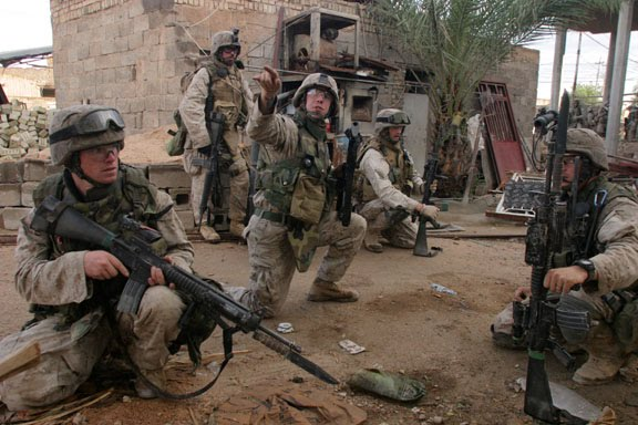 United States Marines carrying M16A4 rifles with fixed OKC-3S bayonets in Fallujah, Iraq November 2004.